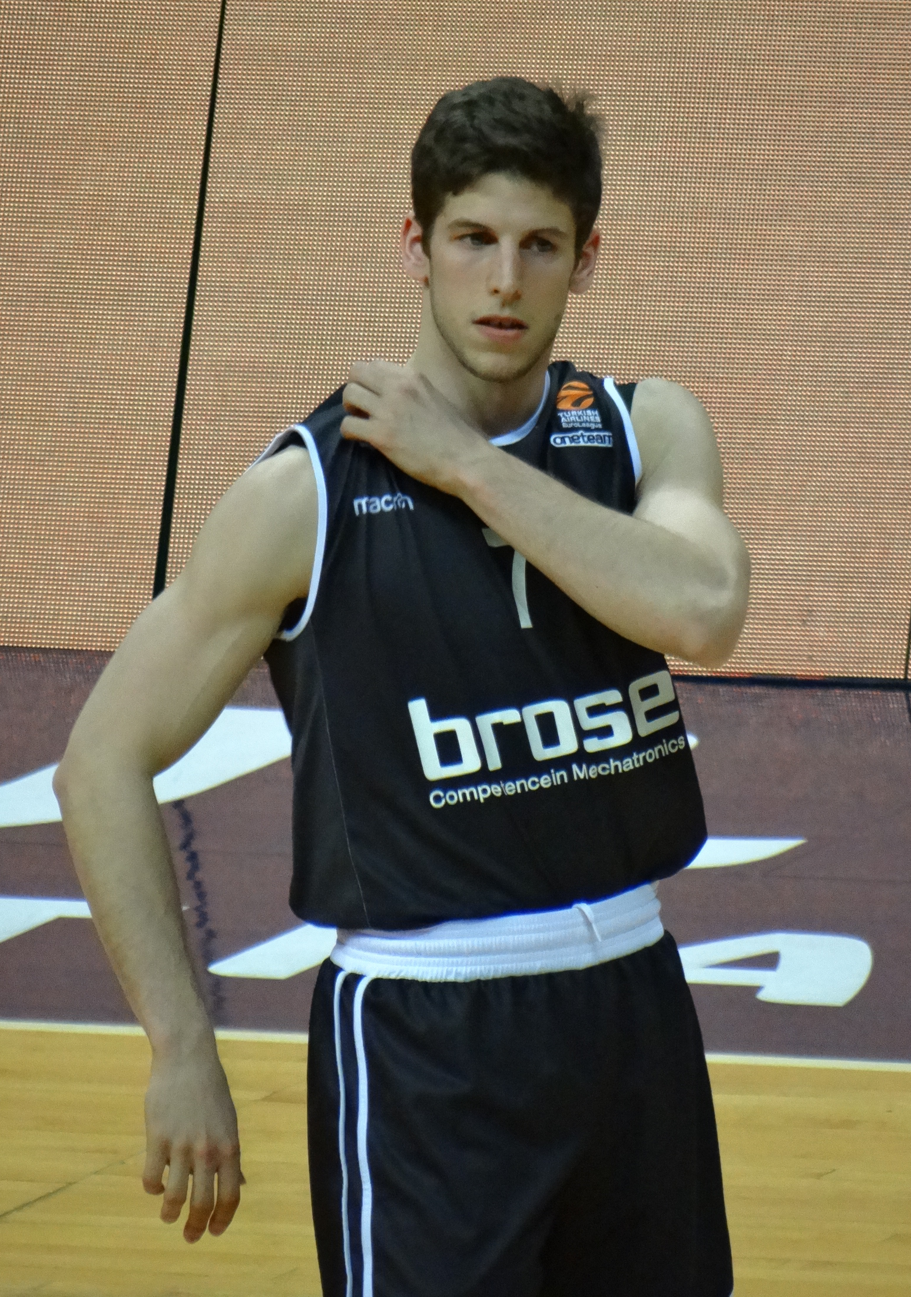 Aleksej Nikolić 7 Brose Bamberg EuroLeague 20180209